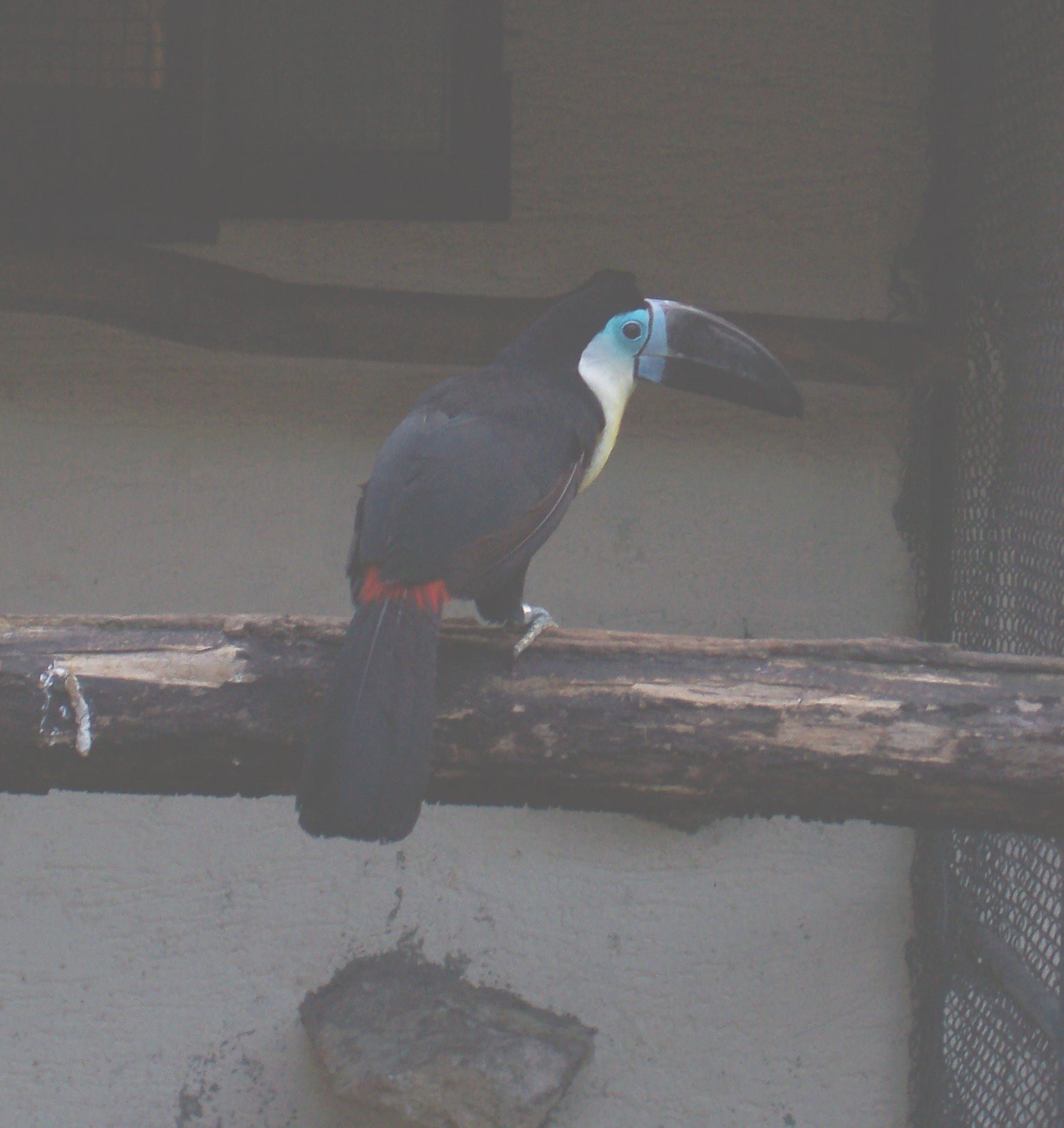 A channel-billed toucan from back, photographed in Belgrade Zoo.